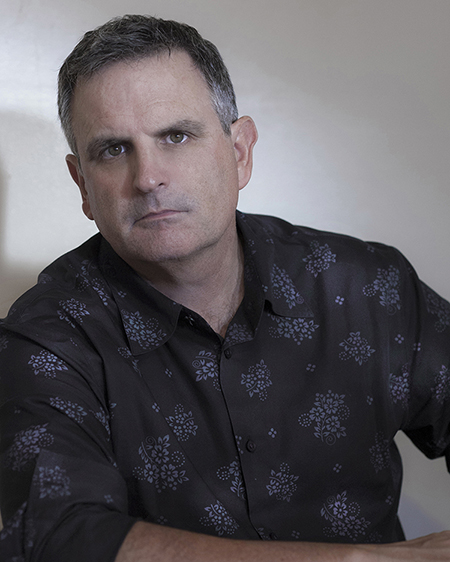 Portrait of Gilbert King